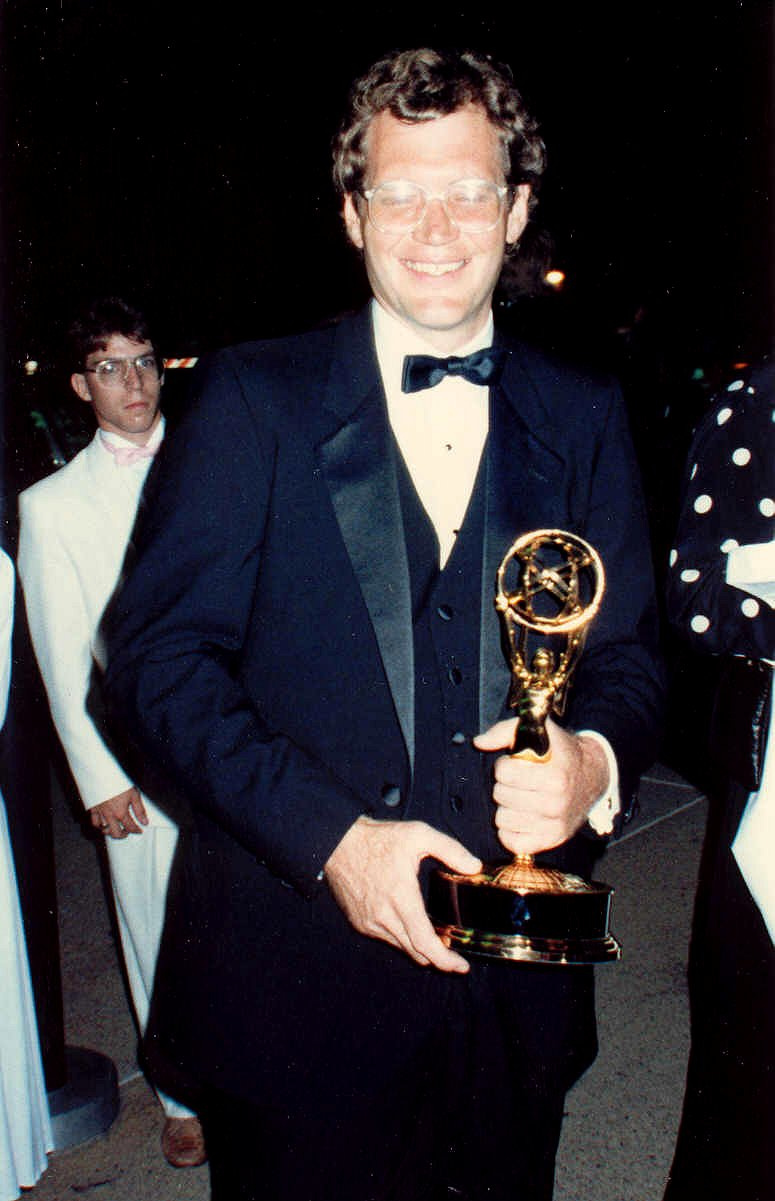 39th Emmy Awards - Sept. 1987, David Letterman holding an Emmy award